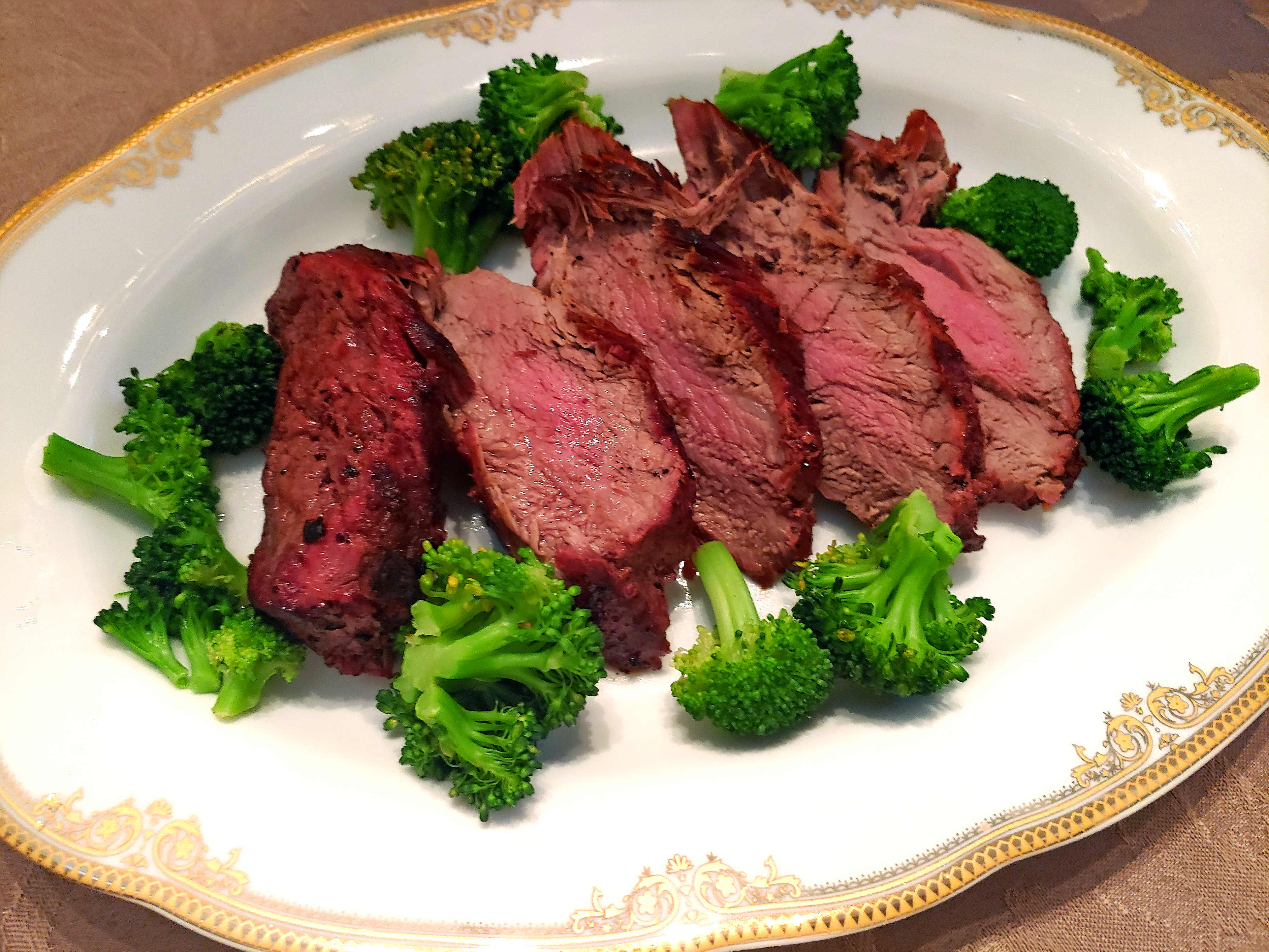 Chateaubriand roasted over a low fire